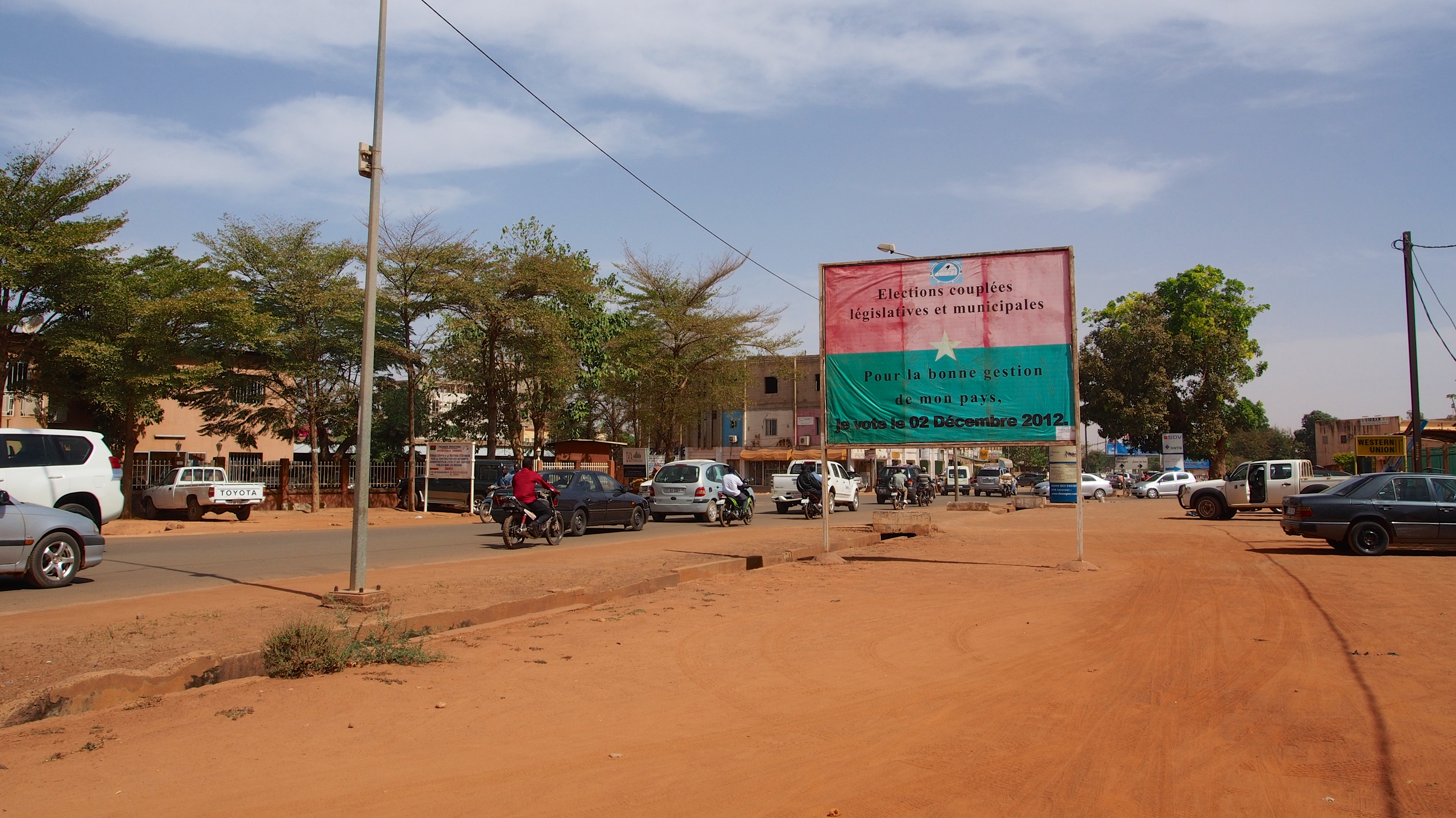 National and communal elections 2012 Burkina Faso: Poster issued by the authorities calling electors to participate